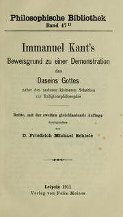 Front cover of The Only Possible Argument in Support of a Demonstration of the Existence of God (German edition)